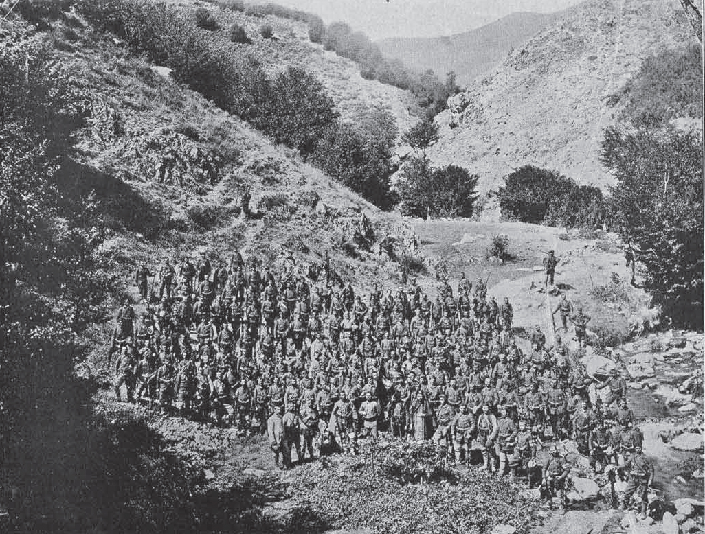 United cheti of IMARO of Delcho Kotsev, Petar Samardzhiev, Hristo Chernopeev, captain Trenev, Nikola Zhekov, Panayot Baychev